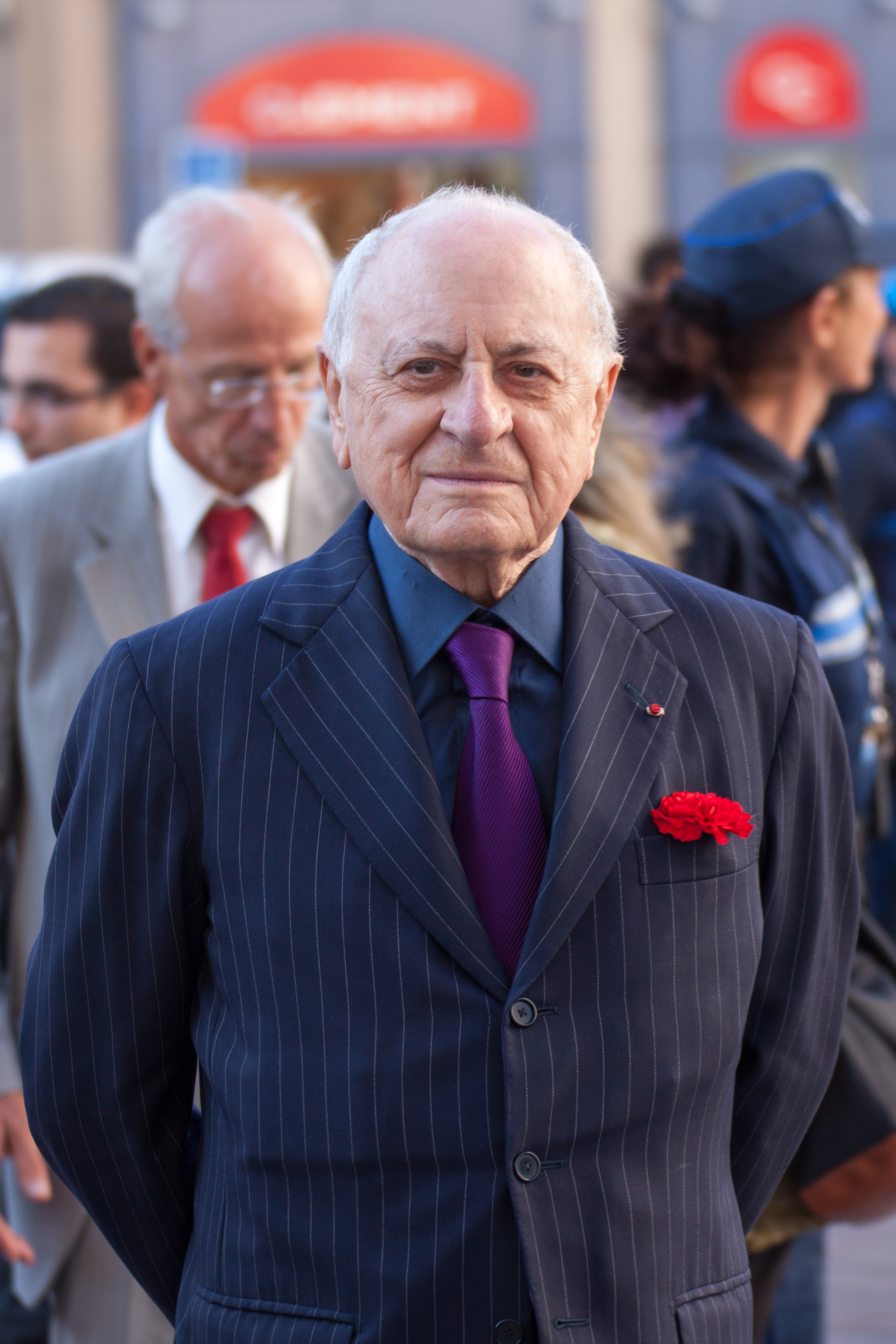 Pierre Bergé in Grenoble.